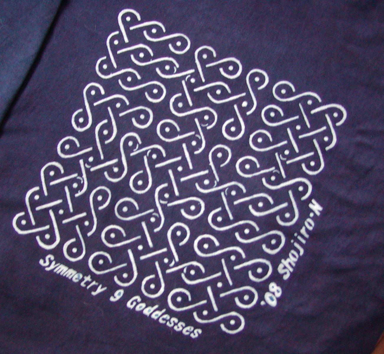 Kolam_Indigo_Dyed_On_Cloth the first application of a single cycle white line Kolam on cloth, the design of which shows 9 goddesses of only symmetrical 3x3 single cycle Kolams,and a Swastik form